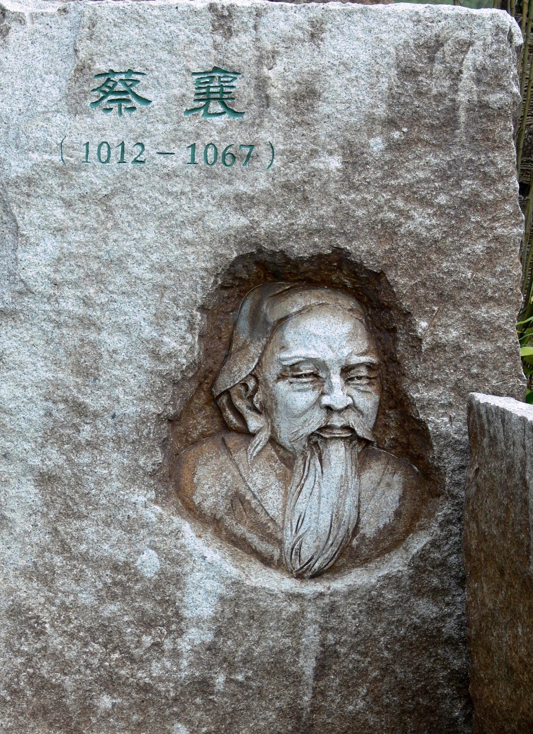 Sculpture of Cai Xiang in Wuyi Mountain Tea Theme Park